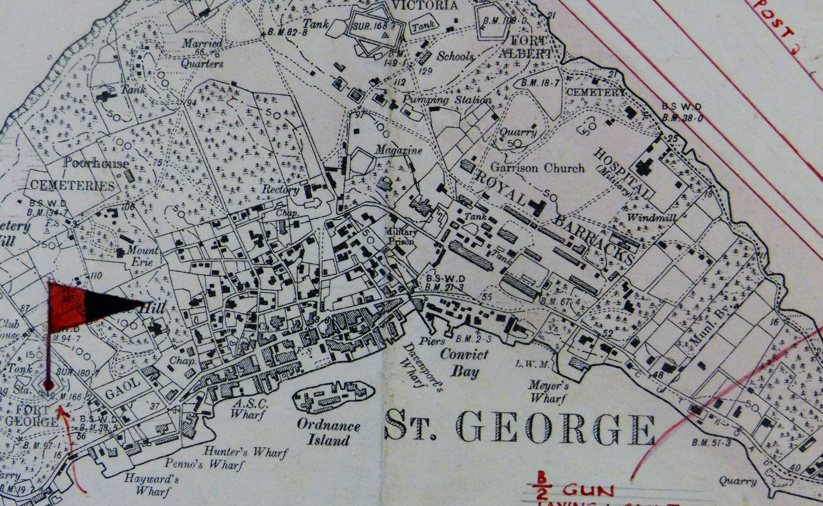 Detail from the Ordnance Survey map of the British colony of Bermuda, produced by Lieutenant Arthur Johnson Savage, Royal Engineers, who surveyed Bermuda between 1897 and 1899, showing St. George's Town and St. George's Garrison, Bermuda. The completed map was first printed in 1901.[1]